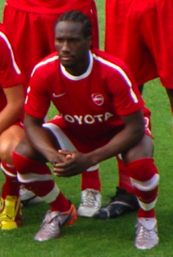 Benjamen Angoua (Valenciennes FC)